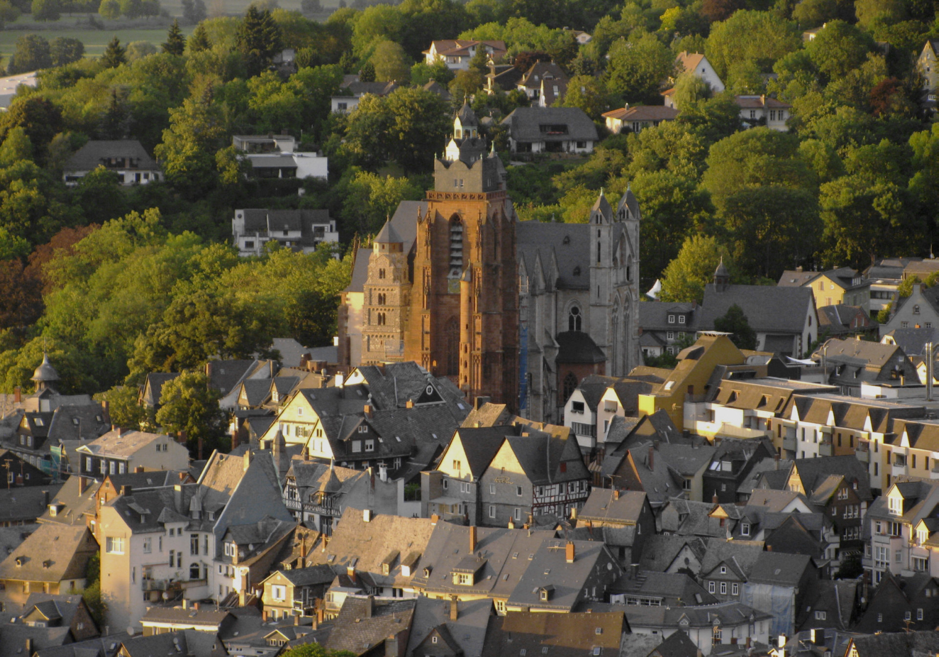 Wetzlar Cathedral